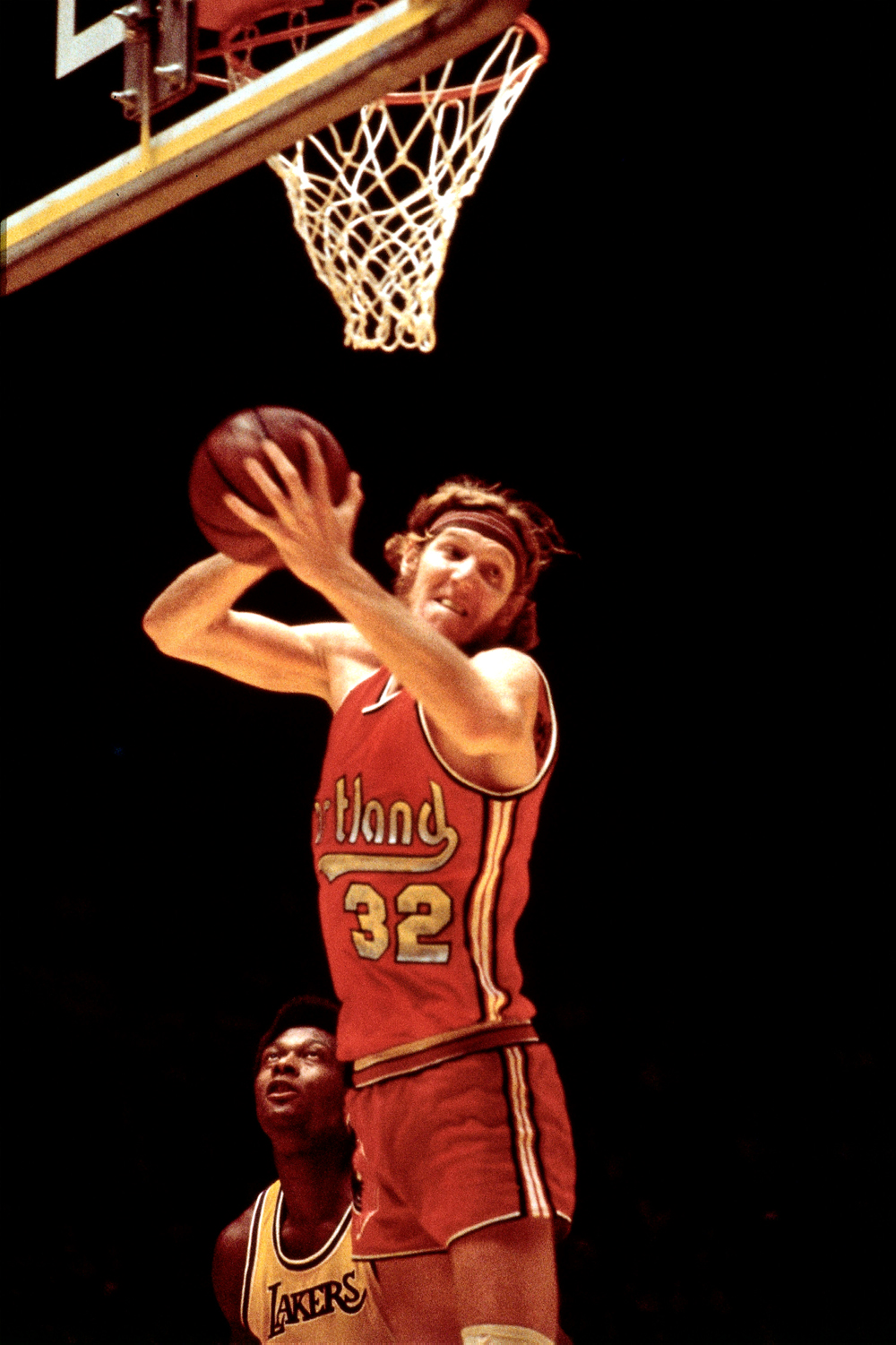 Professional basketball player Bill Walton